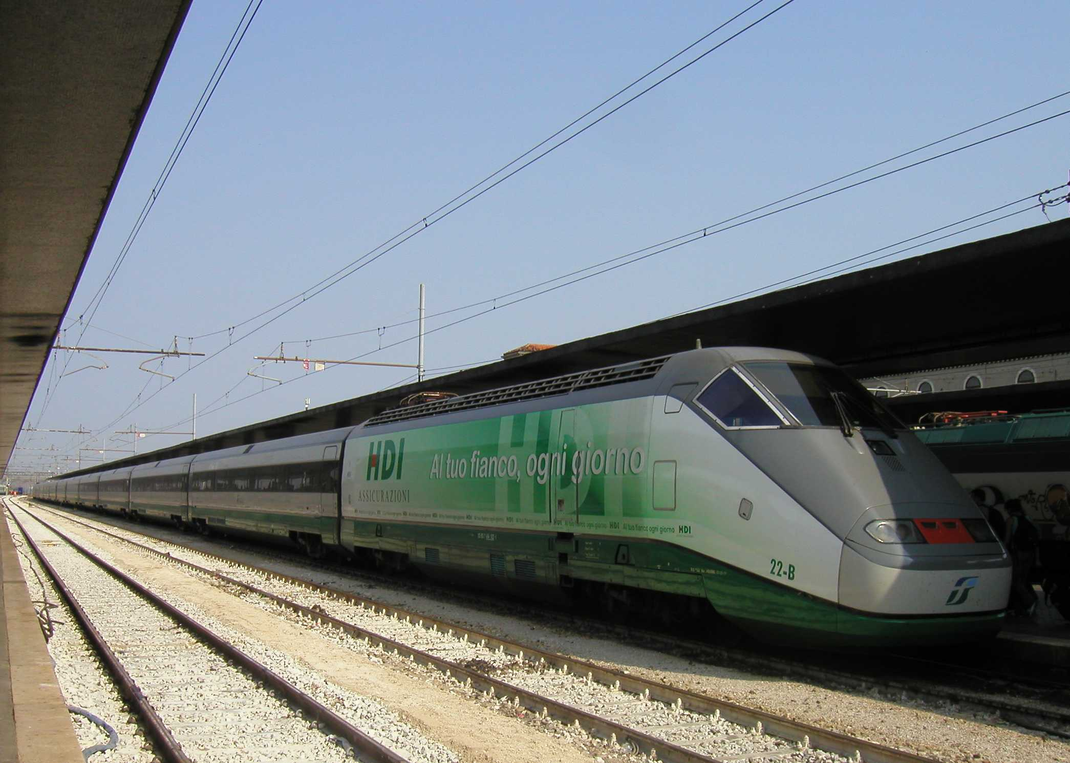 Trenitalia series ETR 500 at Venezia S.Lucia